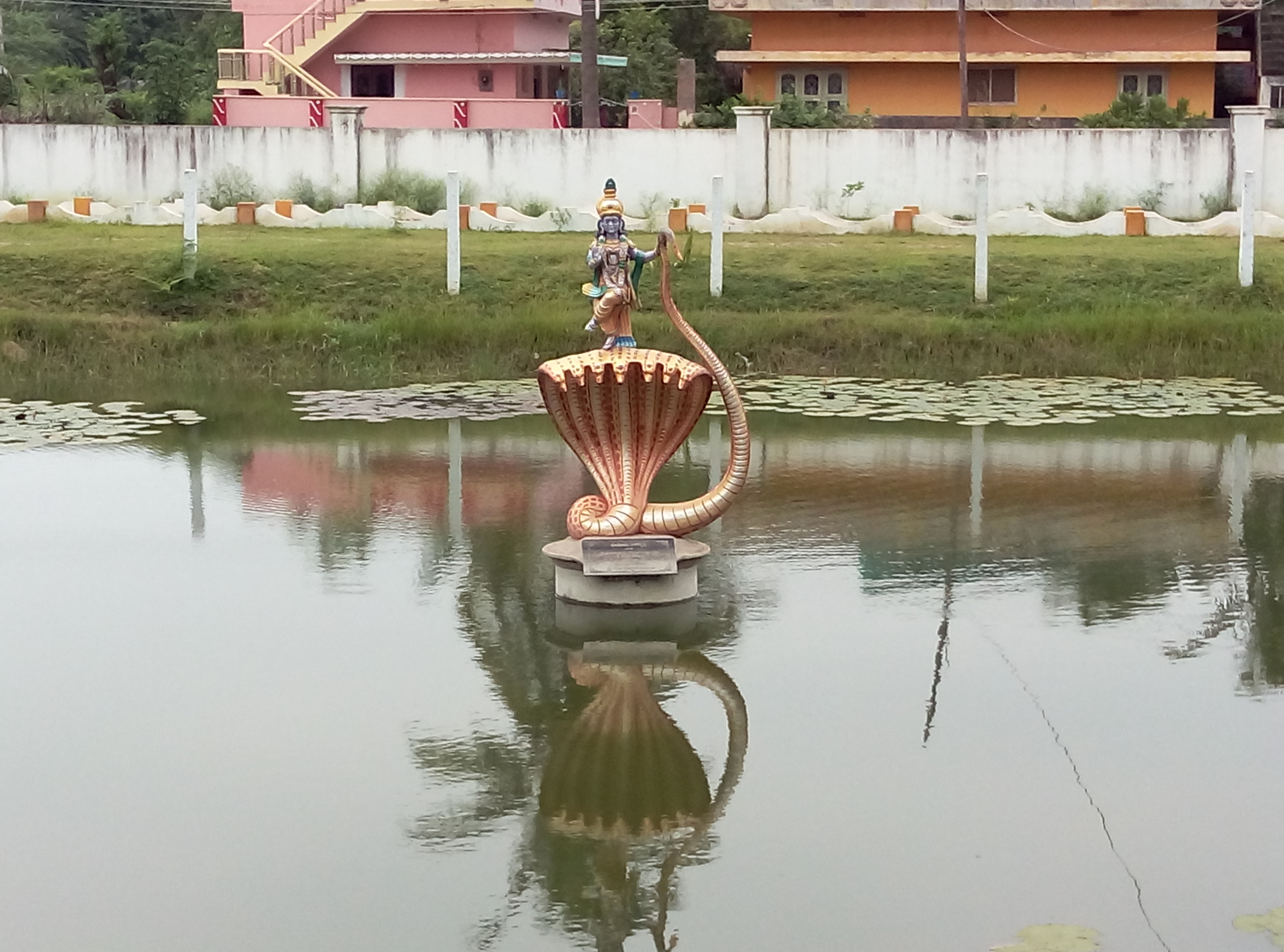 Temple Located in the village Bhairavapentapadu, Pentapadu Mandal, West Godavari District